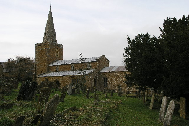 Church of England parish church of St Laurence, Shotteswell, Warwickshire, seen from the southeast